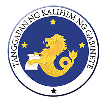 Seal of the Office of the Cabinet Secretary.